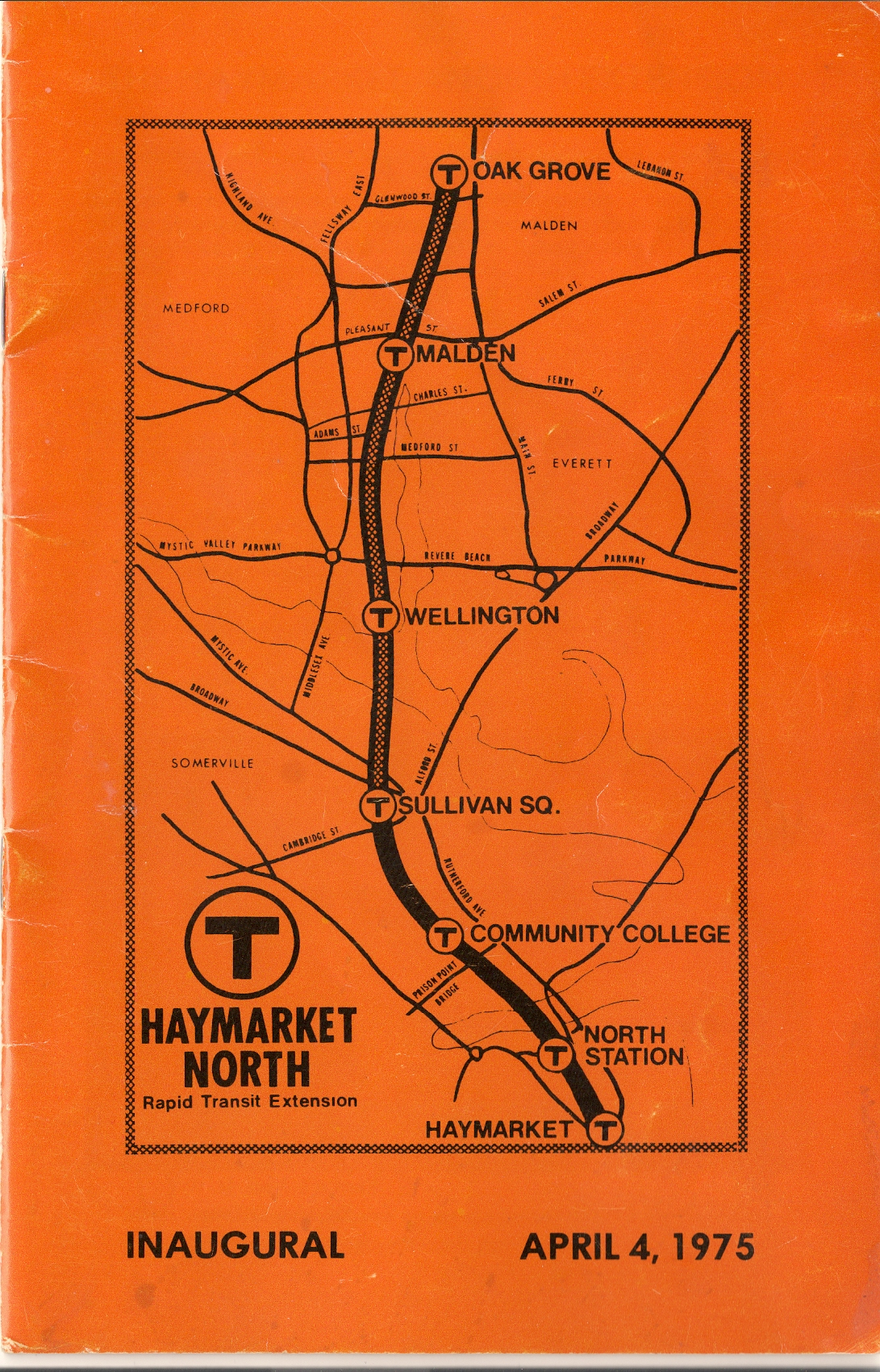 A flier celebrating the inaugural run of the Haymarket North Extension on April 4, 1975 - three days before its opening. The section to Malden opened later that year, and to Oak Grove in 1975.